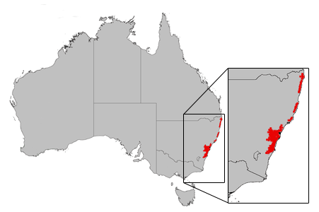 Distribution of Banksia ericifolia